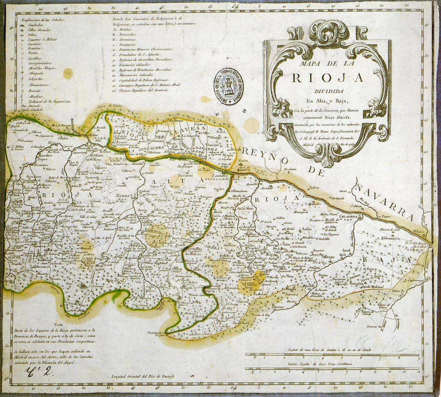 Map of La Rioja (Spain)